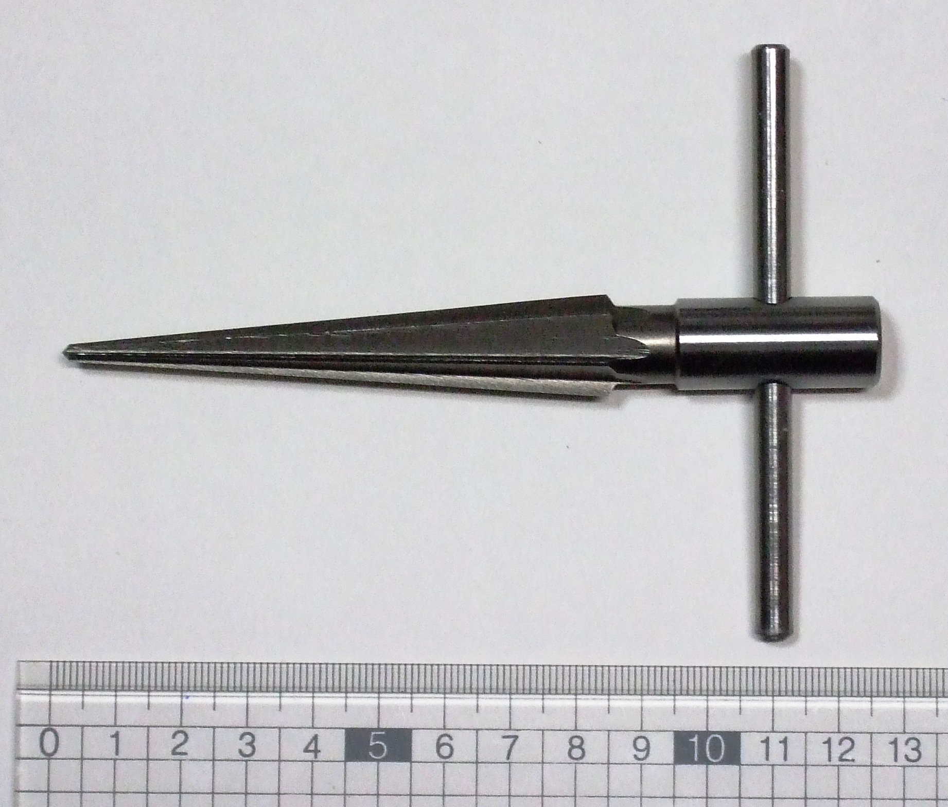 Taper reamer (K-442. Applicability: 3 - 16 mmø. Made by Hozan Tool Industrial Co., Ltd. Osaka, Japan)